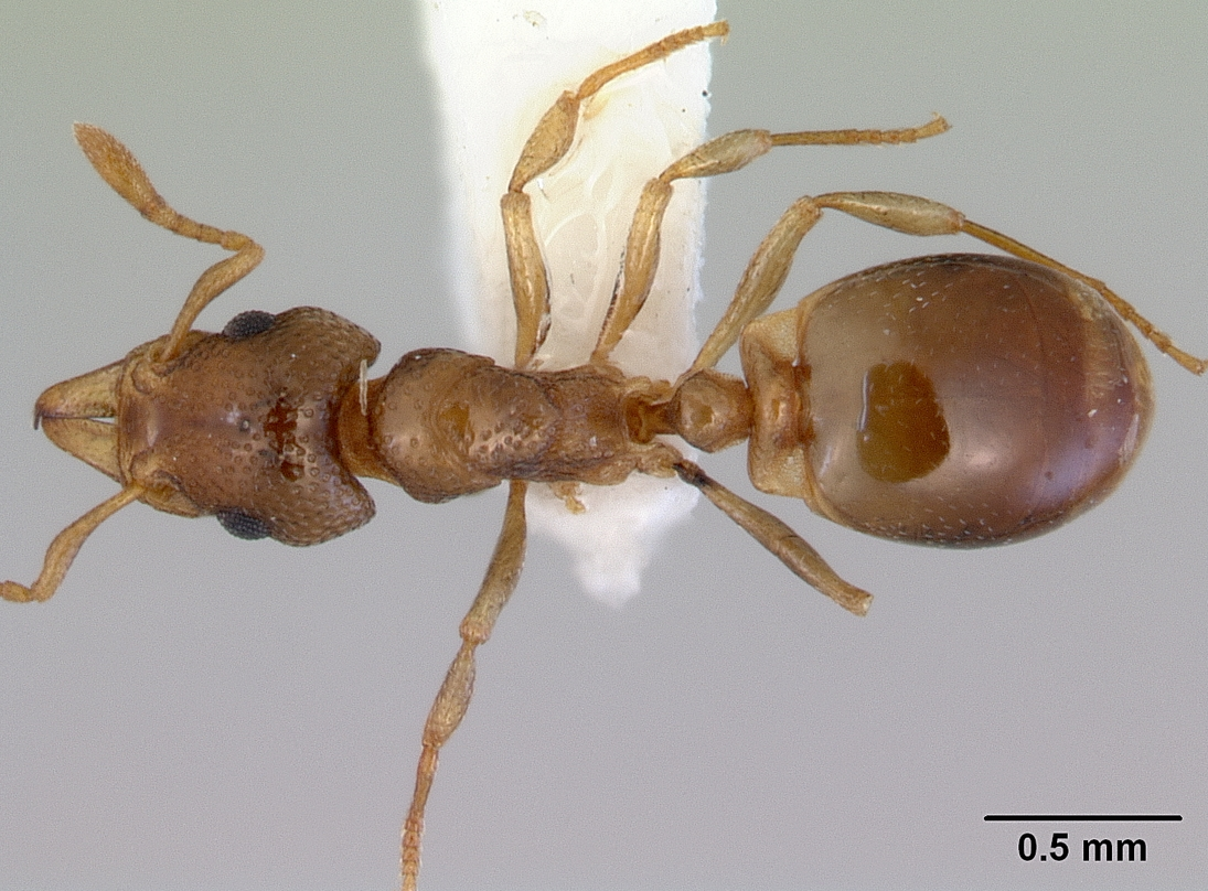 Dorsal view of ant Mesostruma loweryi specimen casent0172477.